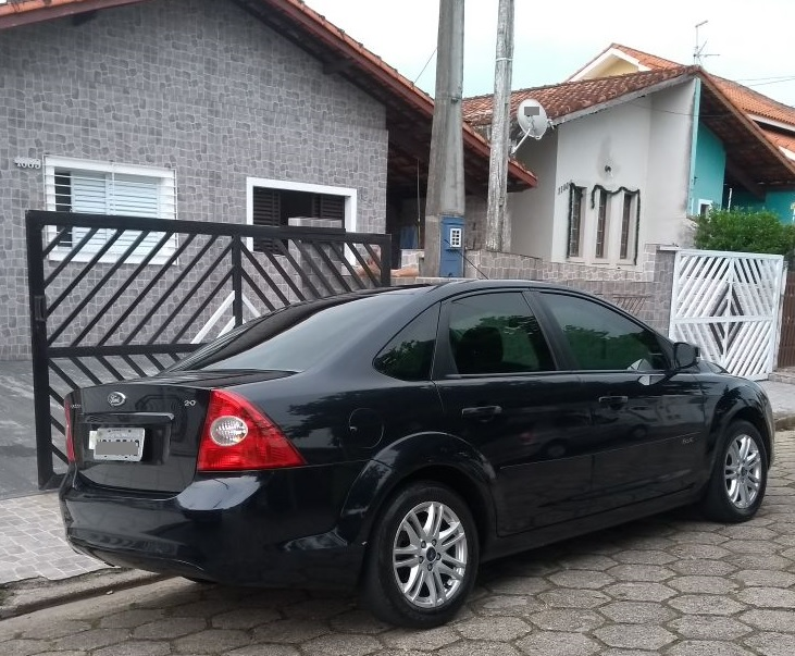 Ford Focus Sedan